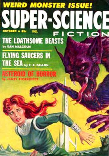 Cover of Super-Science Fiction, October 1959